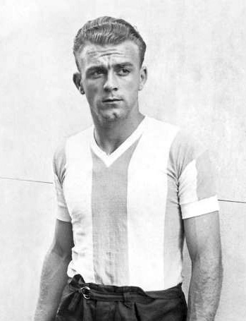 Alfredo Di Stéfano with the Argentina national team.